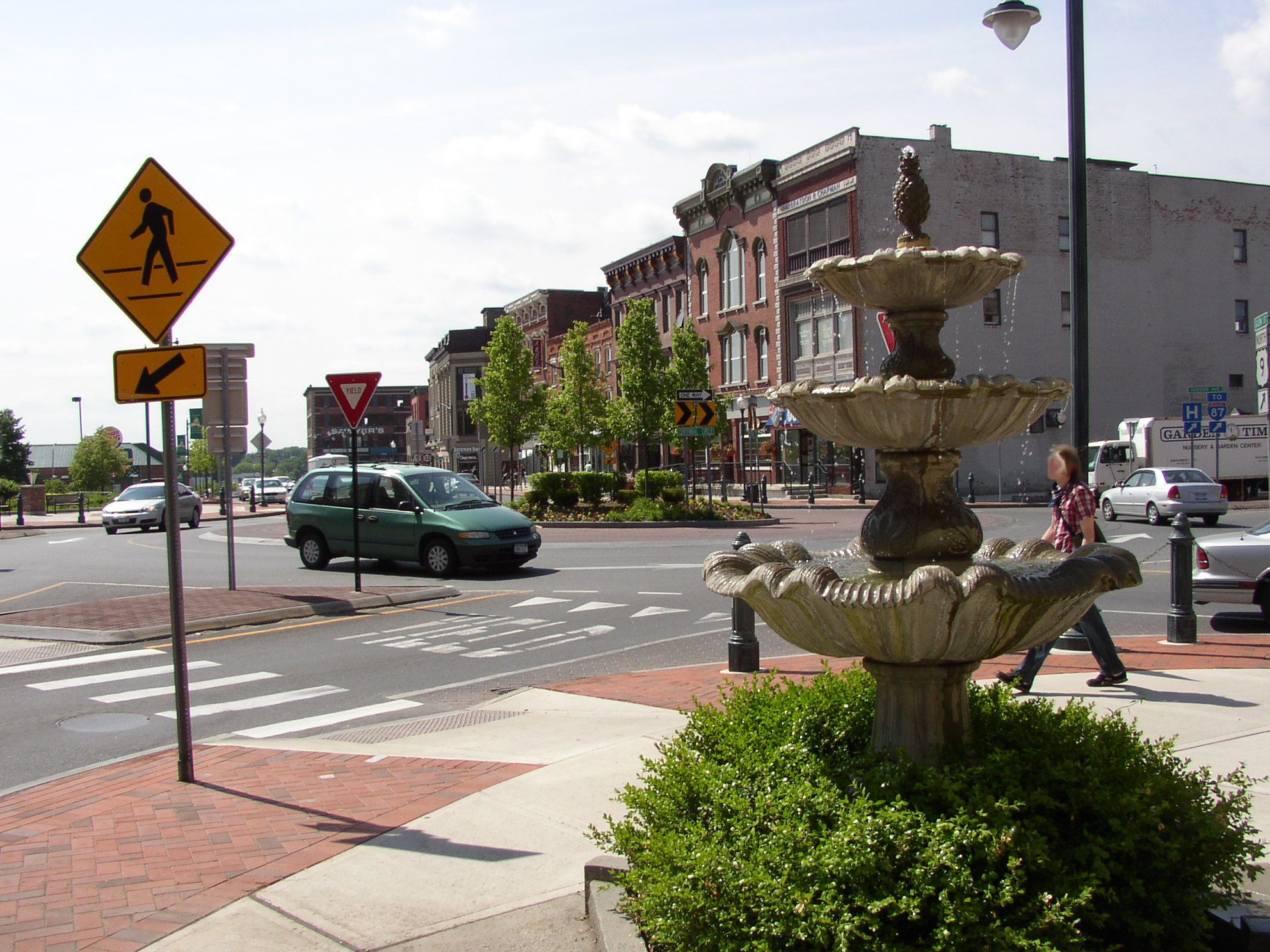 Centennial Circle roundabout in downtown Glens Falls, New York, with sidewalk fountain in foreground. Taken from corner between Ridge & Glen Streets, facing southwest.